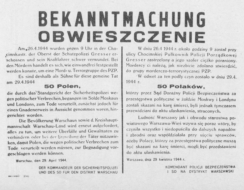 German announcement, death penalty for 50 polish citizens, issued by nazi so called "summary court": (de: Standgericht) in 1944 in German-occupied Poland during II world war. Reason: killing of one german policeman. Announcement is signed by Commandant of SD and Sicherheitspolizei in Warsaw – SS-Standartenführer Ludwig Hahn.